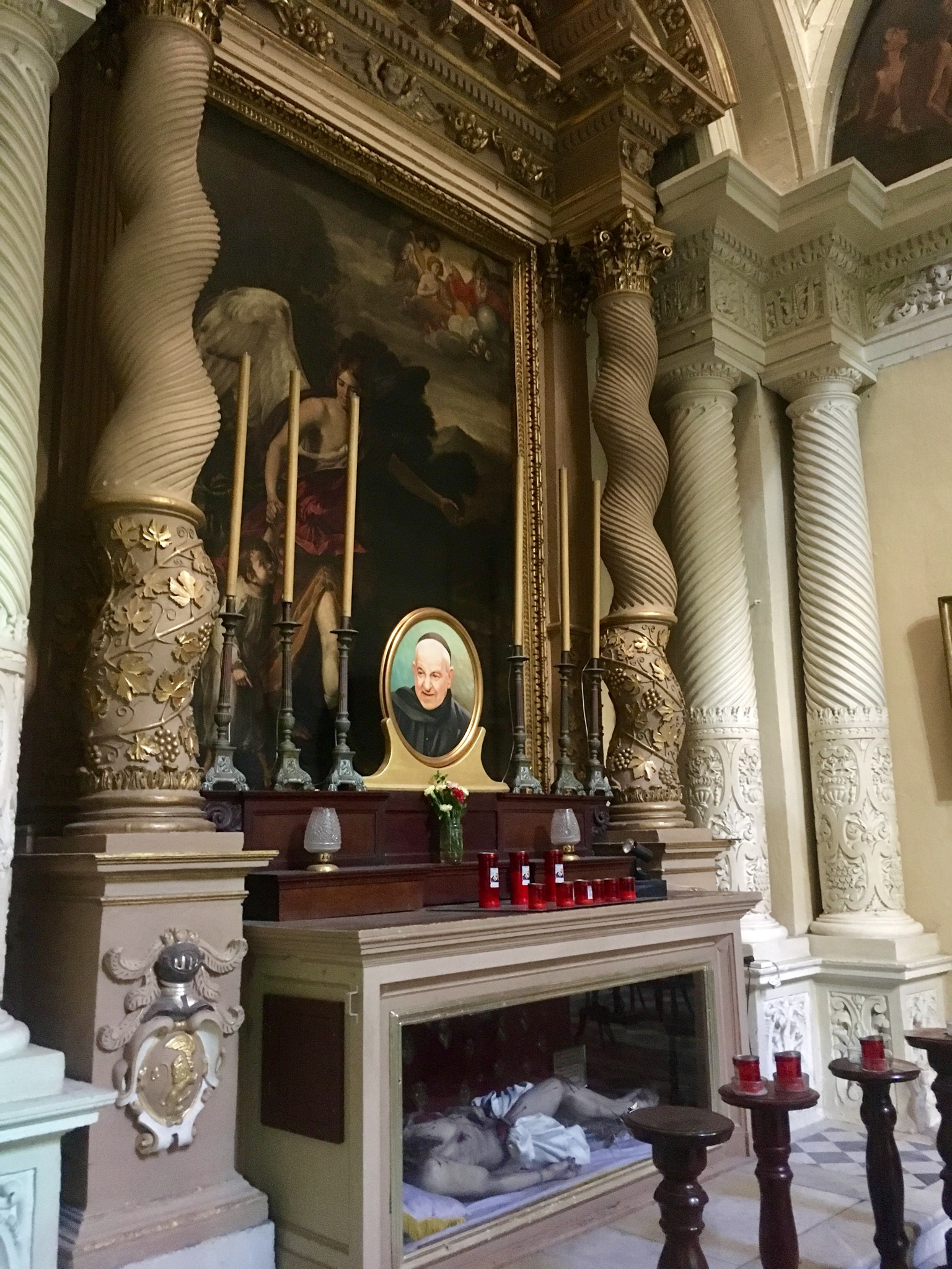 Side chapel at the Jesuits Church, Valletta